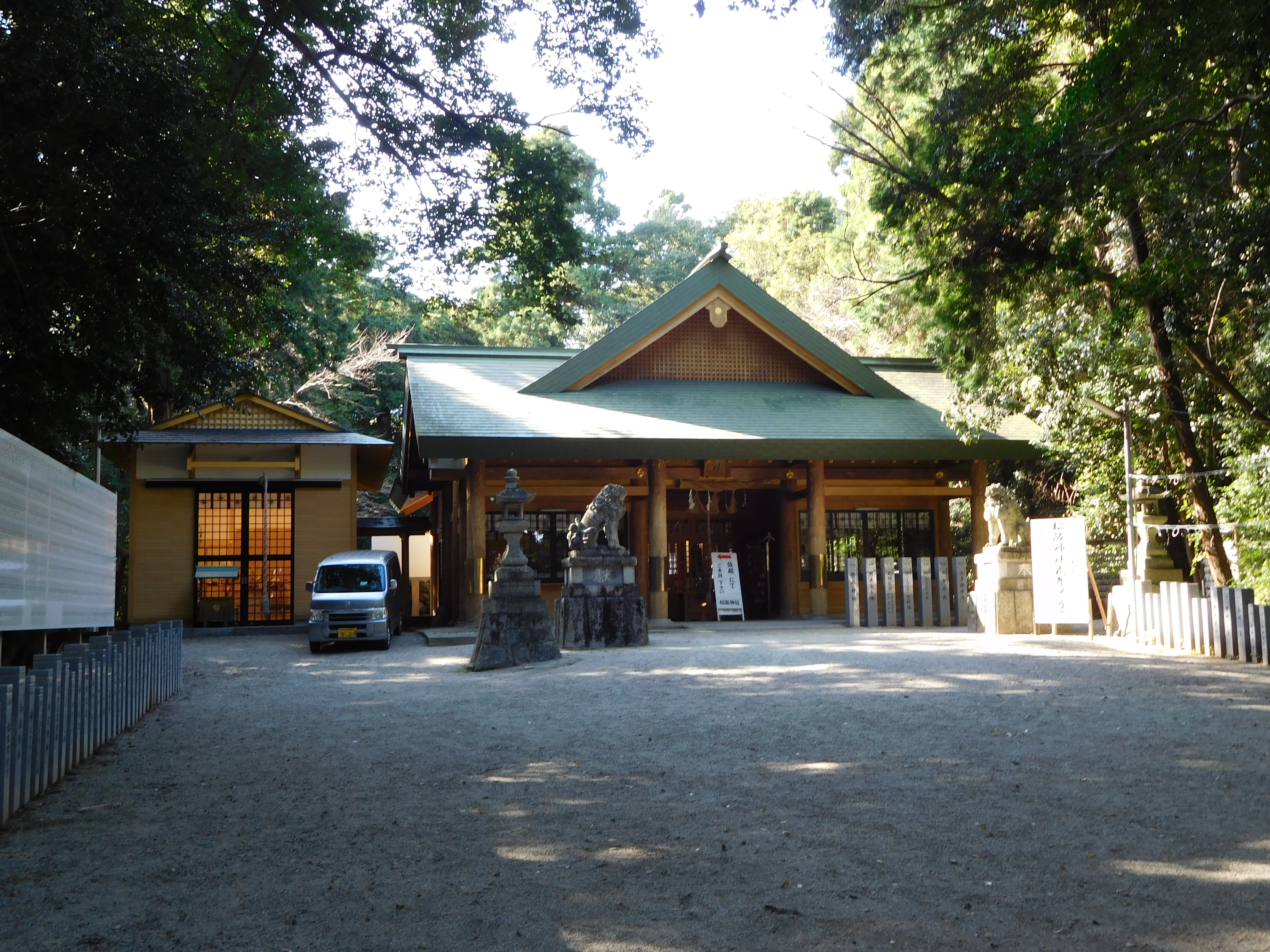 This is the main building of Matsusaka Shrine in Matsusaka, Mie, Japan.